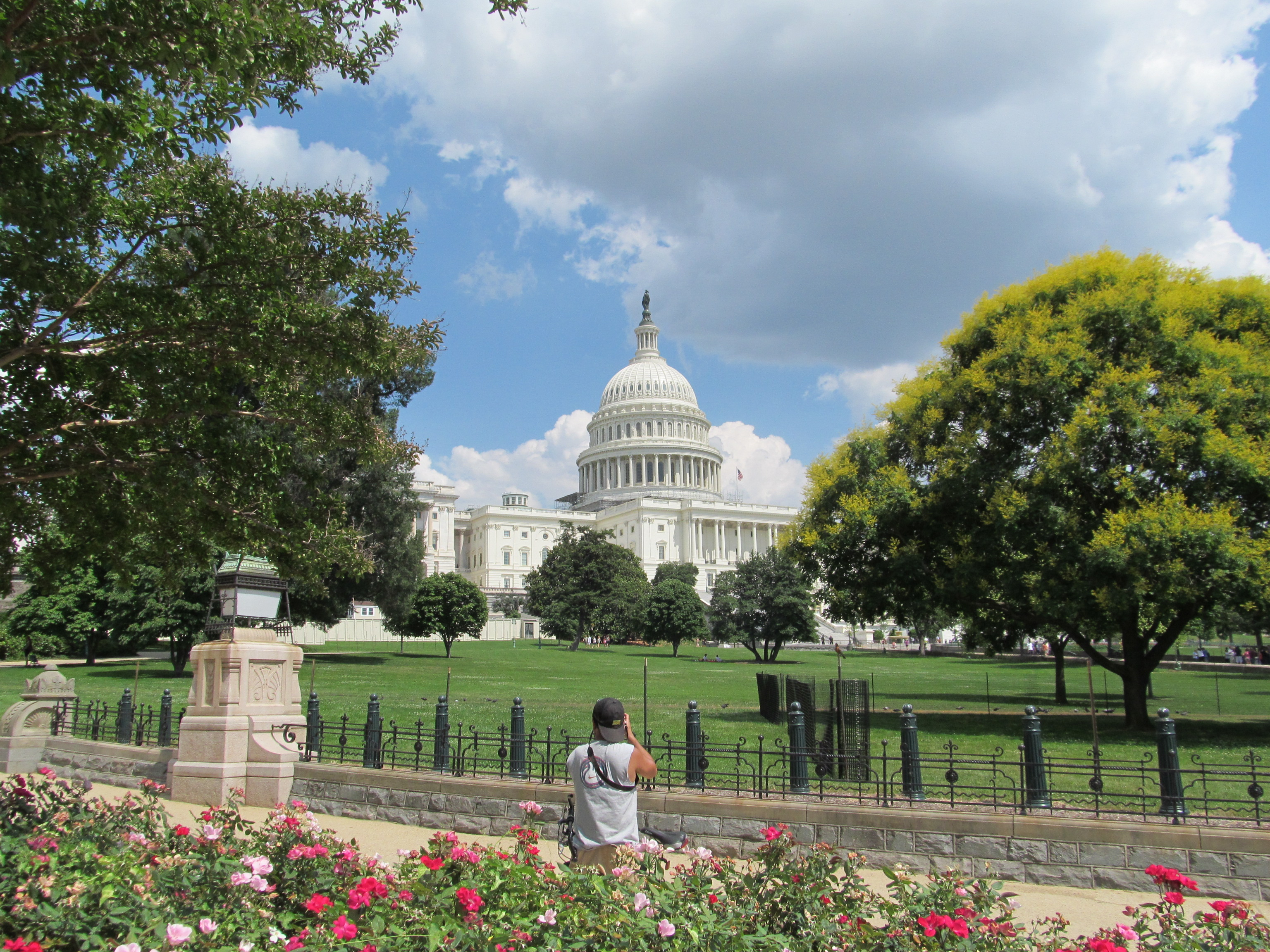 United States Capitol, Washington D.C.